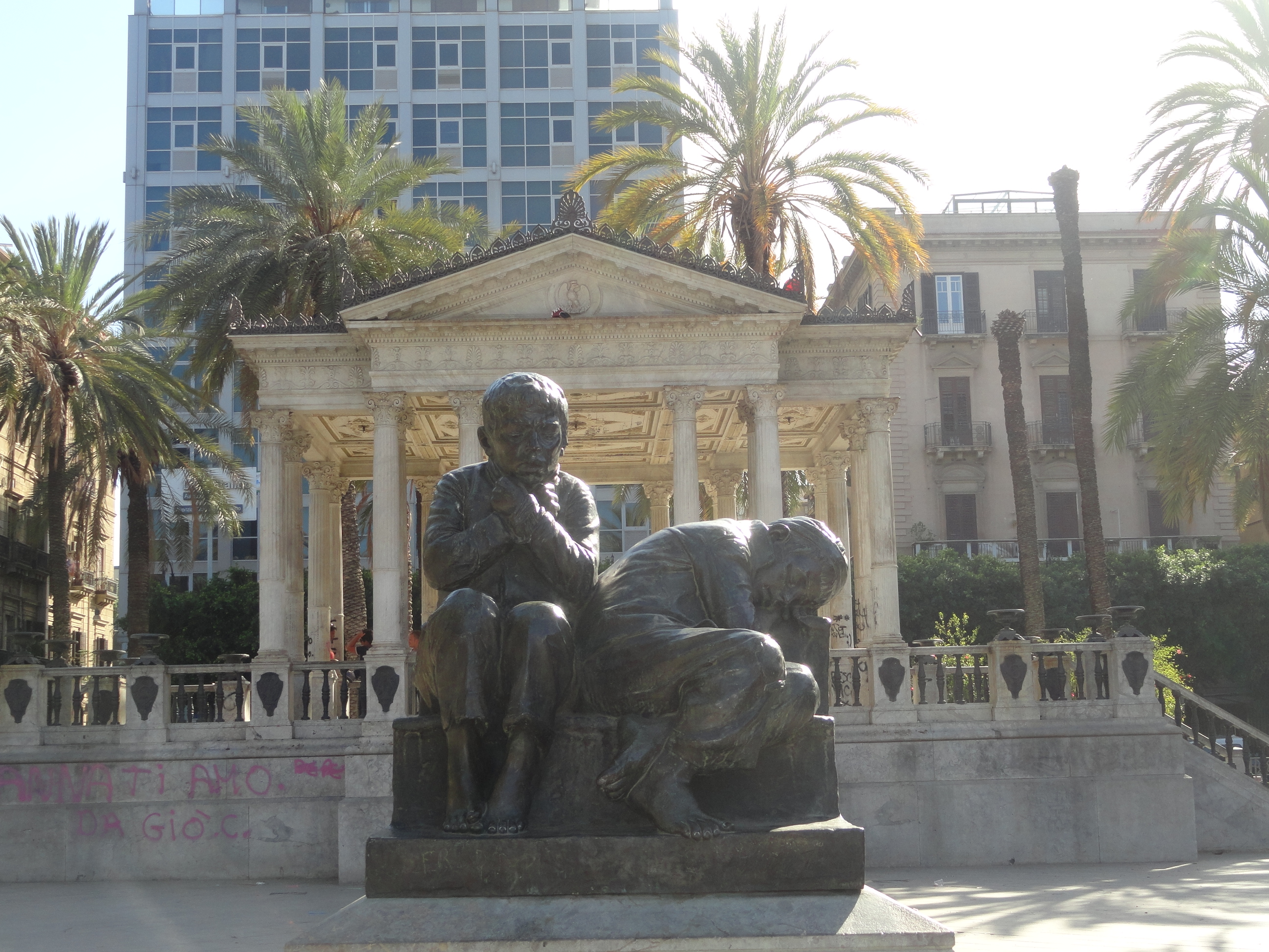 Palchetto della Musica and one of the monuments in front of it in Palermo, Sicily, Italy. They are located at piazza Castelnuovo. Check out our blog at